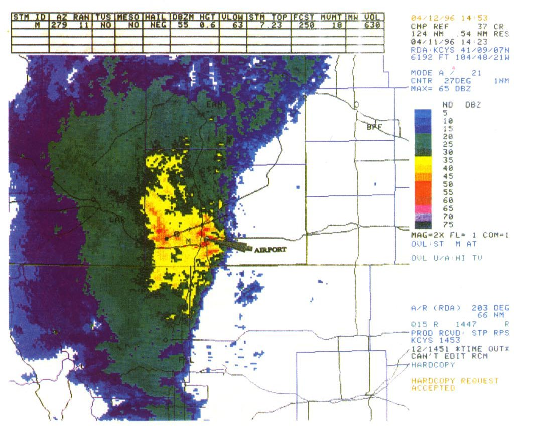 Composite radar precipitation at Cheyenne airport on 4/11/96 14:23Z